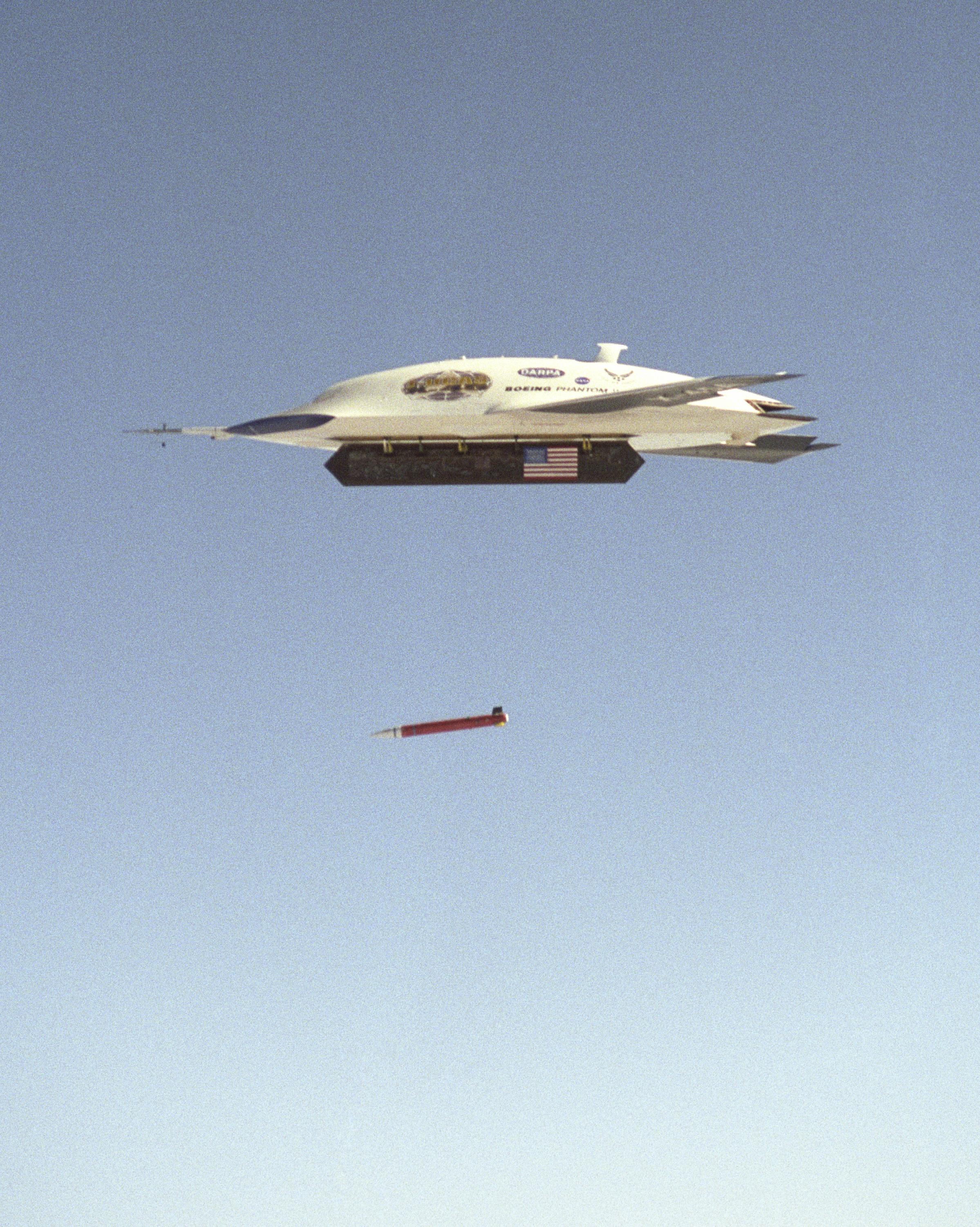 X-45A first GPS-guided weapon demonstration - weapon release.